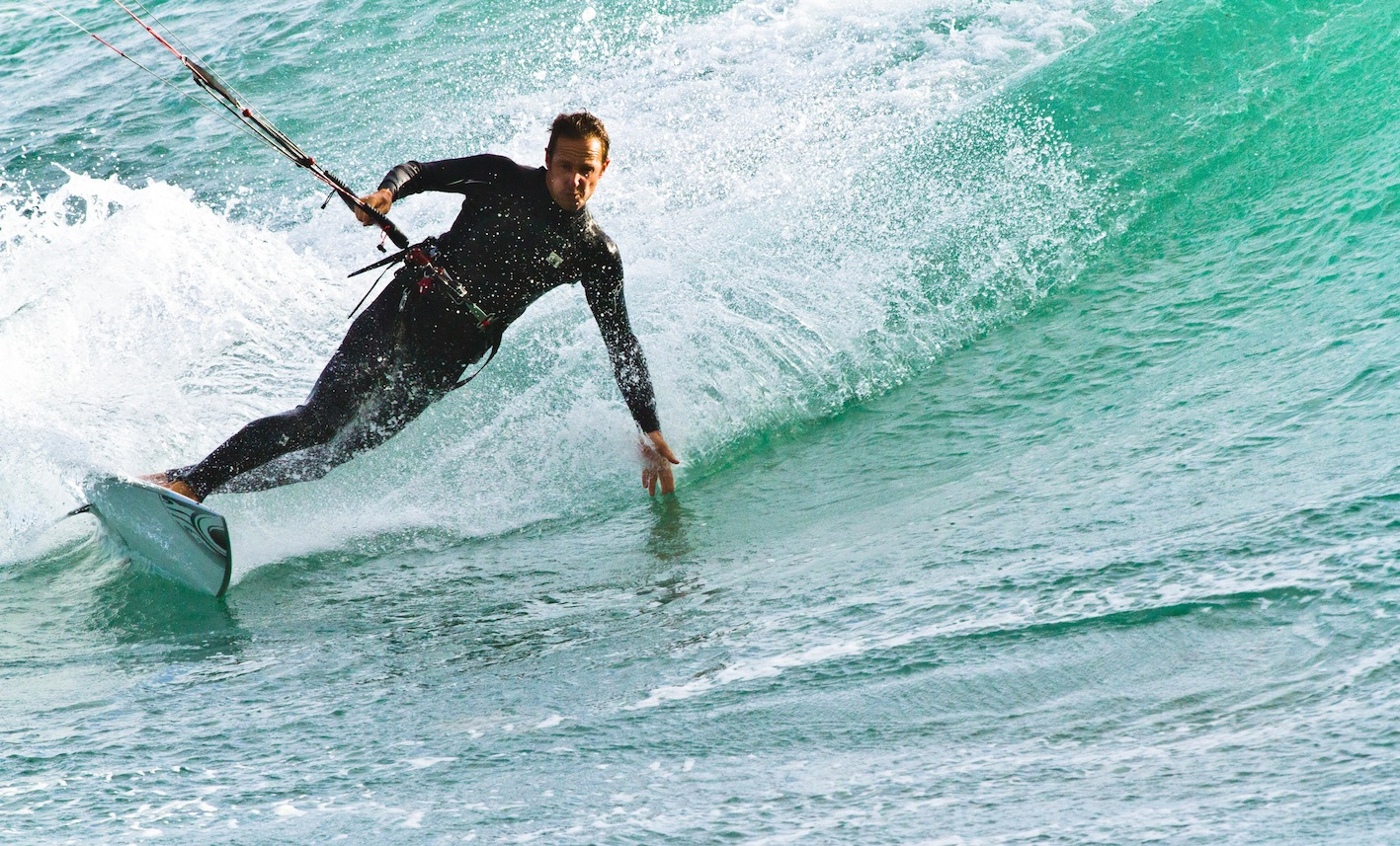 Bruno Sroka kitesurfing in the waves in Brittany (France).